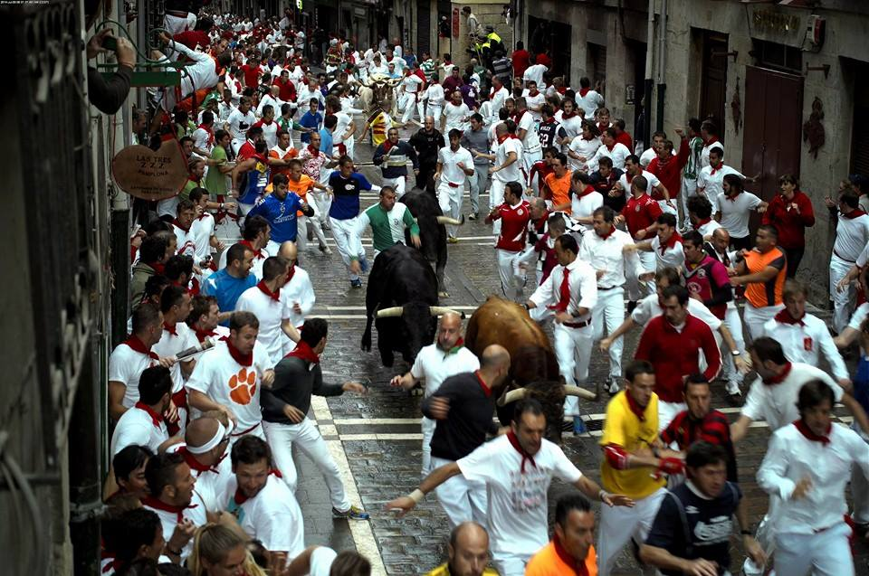 Pamplona bull run - typical attire demonstrated with the daring blues and even a Clemson Tiger paw shirt to attract the attention of the bulls.